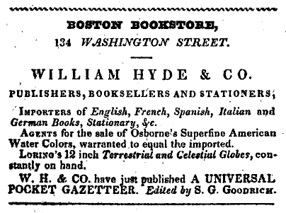 Ad for William Hyde & Co., booksellers; "Boston Bookstore"; Washington St., Boston